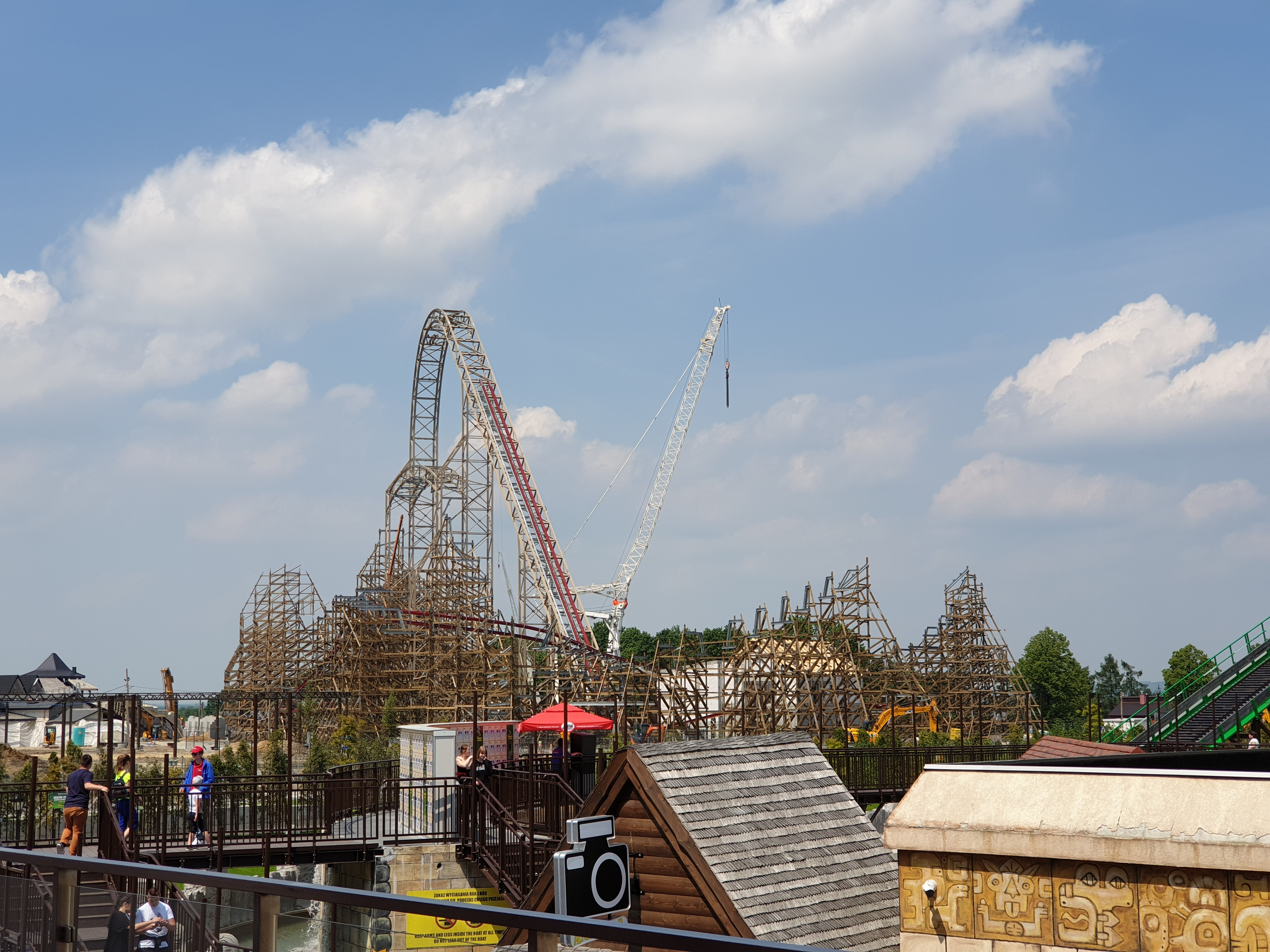 Zadra hybrid roller coaster at Energylandia, Poland (May 2019).